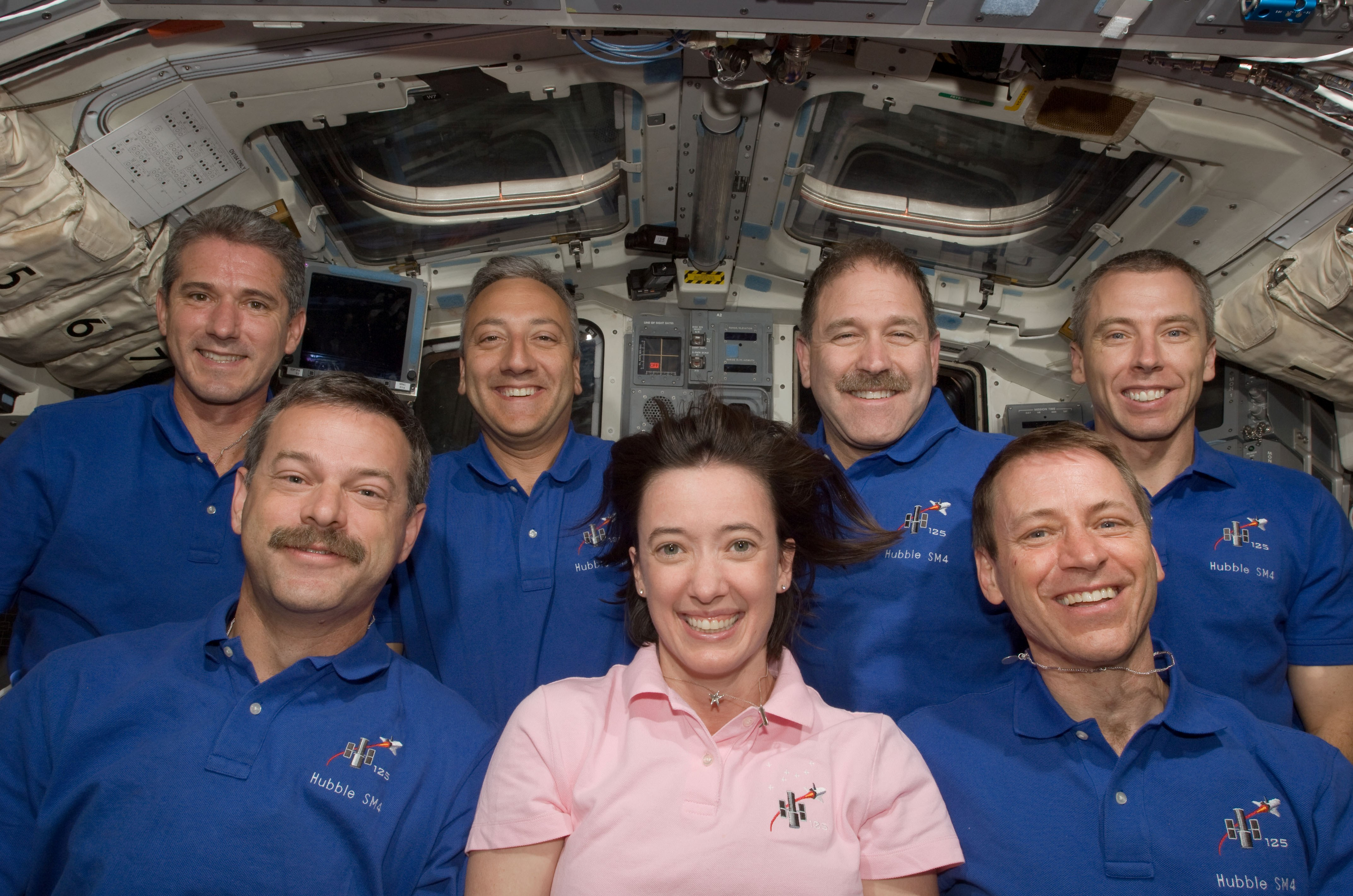 The crewmembers for the STS-125 mission pose for a photo on the flight deck of the Earth-orbiting Space Shuttle Atlantis. Pictured on the front row are astronauts Scott Altman (left), commander; Megan McArthur, mission specialist; Gregory C. Johnson, pilot. Pictured on the back row (left to right) are astronauts Michael Good, Mike Massimino, John Grunsfeld, and Andrew Feustel, all mission specialists.